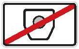 Road sign of the Czech Republic